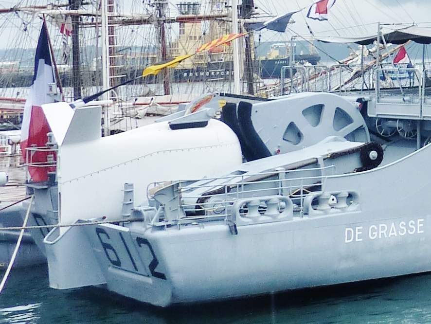 The frigate De Grasse during the Tonnerres de Brest 2012 festival - photo cropped to show the SLASM (DSBX1) low-frequency sonar at the stern